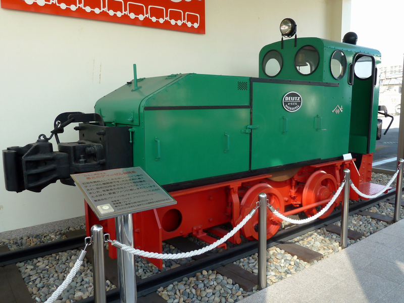 "Otto", a diesel locomotive, which is exhibited at the factory of Yamasa.